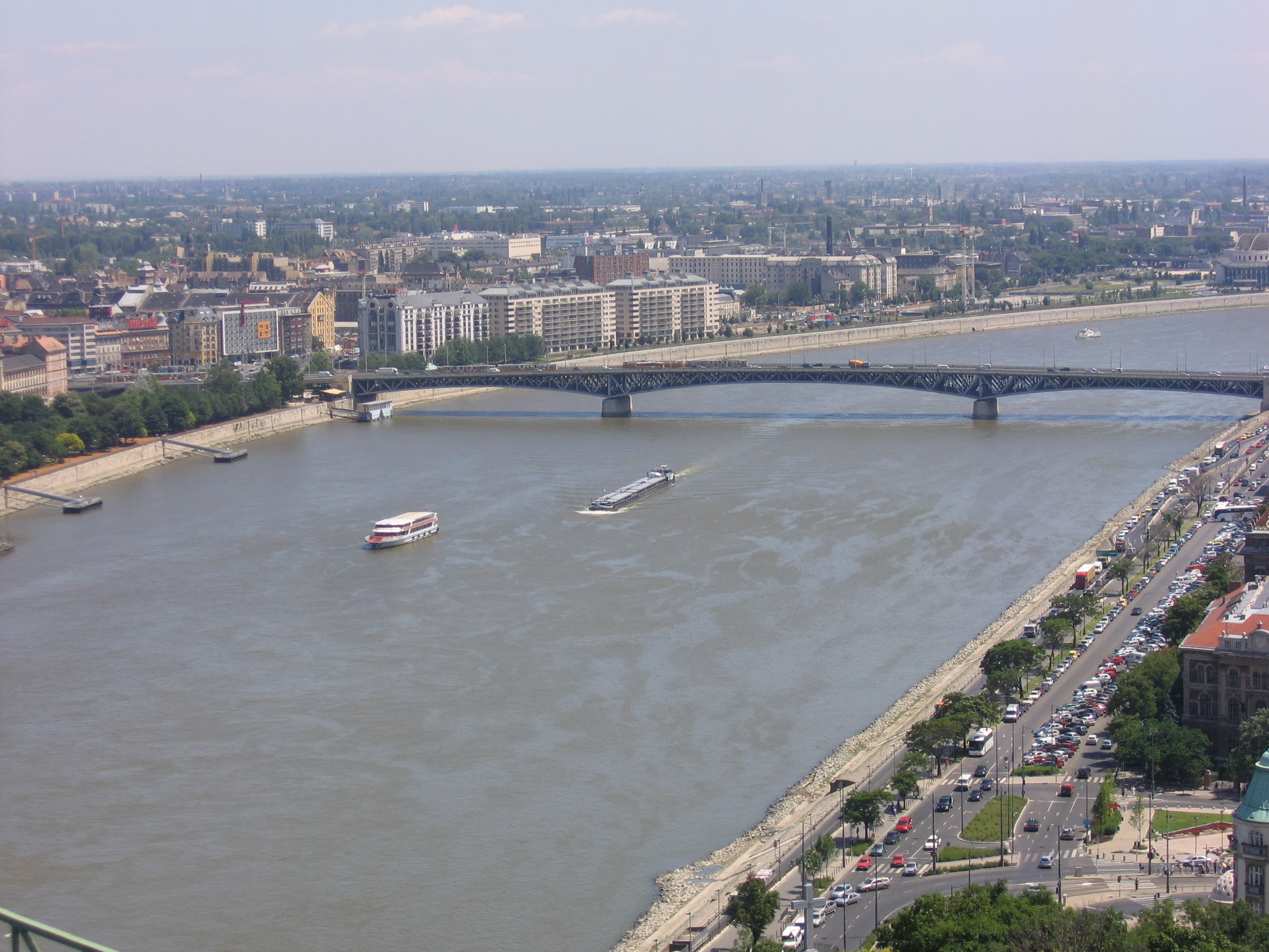 View on Budapest